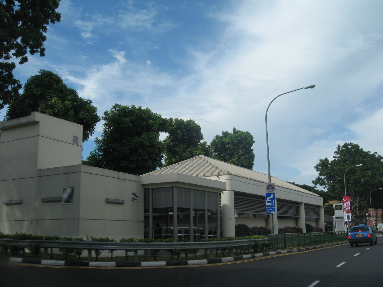 Bedok MRT Station.